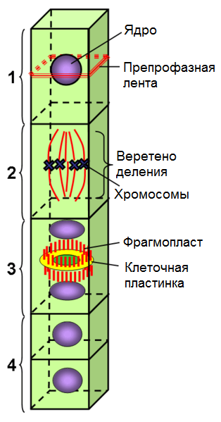 Preprophase band